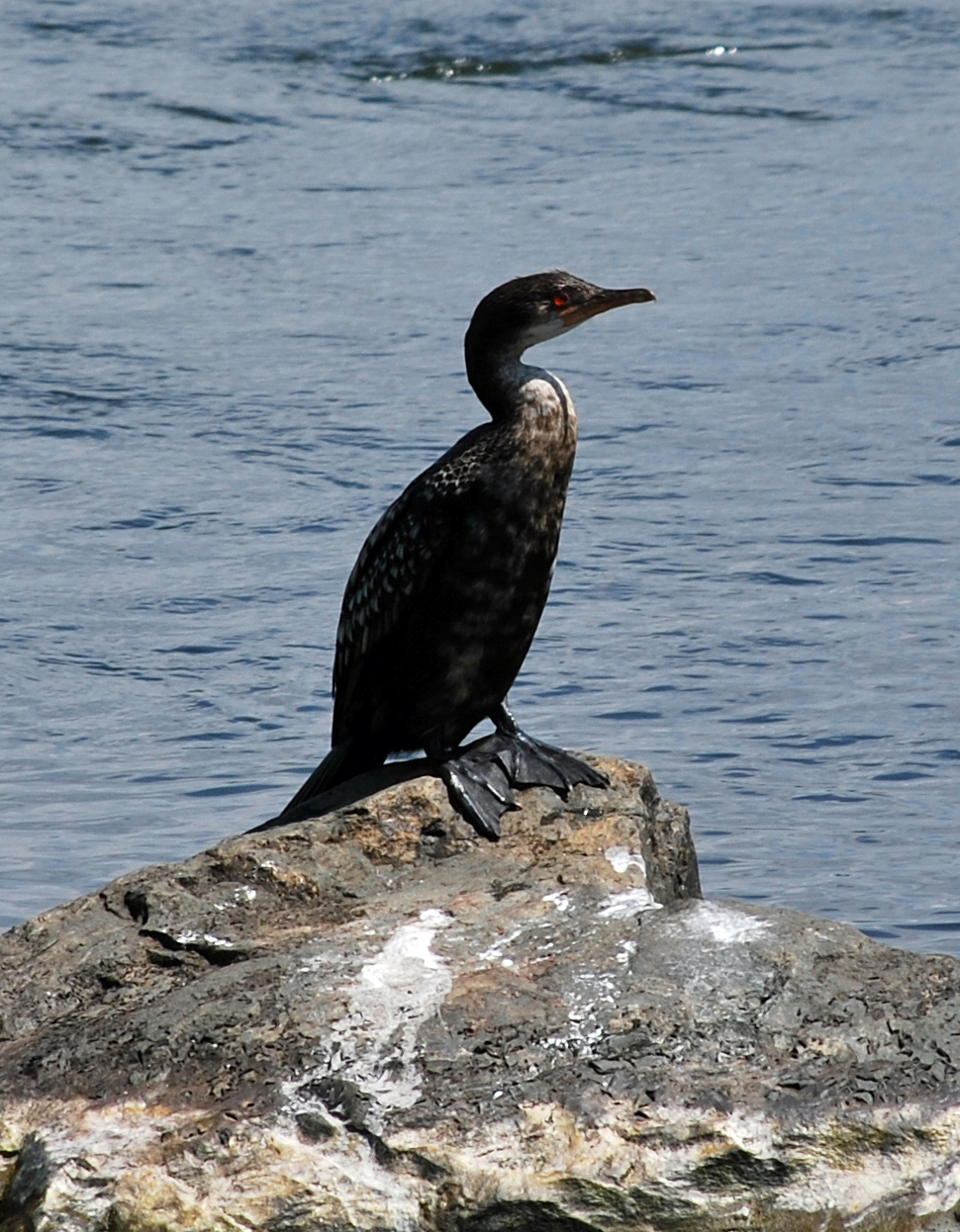 Long-tailed Cormorant, Source of the Nile, Uganda